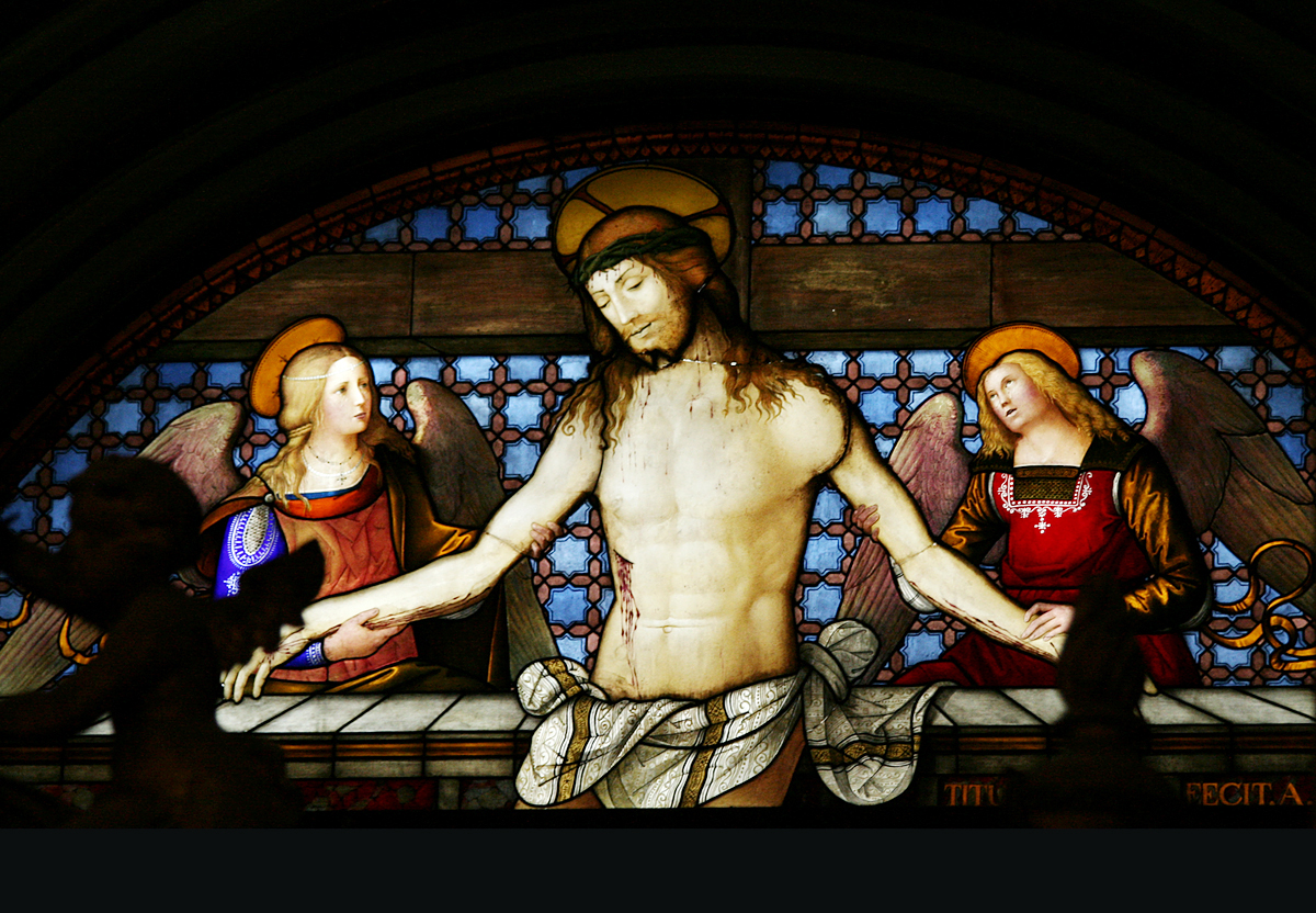 Pieta with Angels, stained glass window in cathedral of San Lorenzo in Perugia. Author: Tito Moretti, 1874